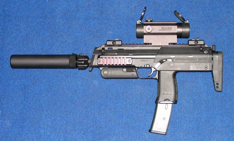 Heckler & Koch MP7A1 PDW with background removed.